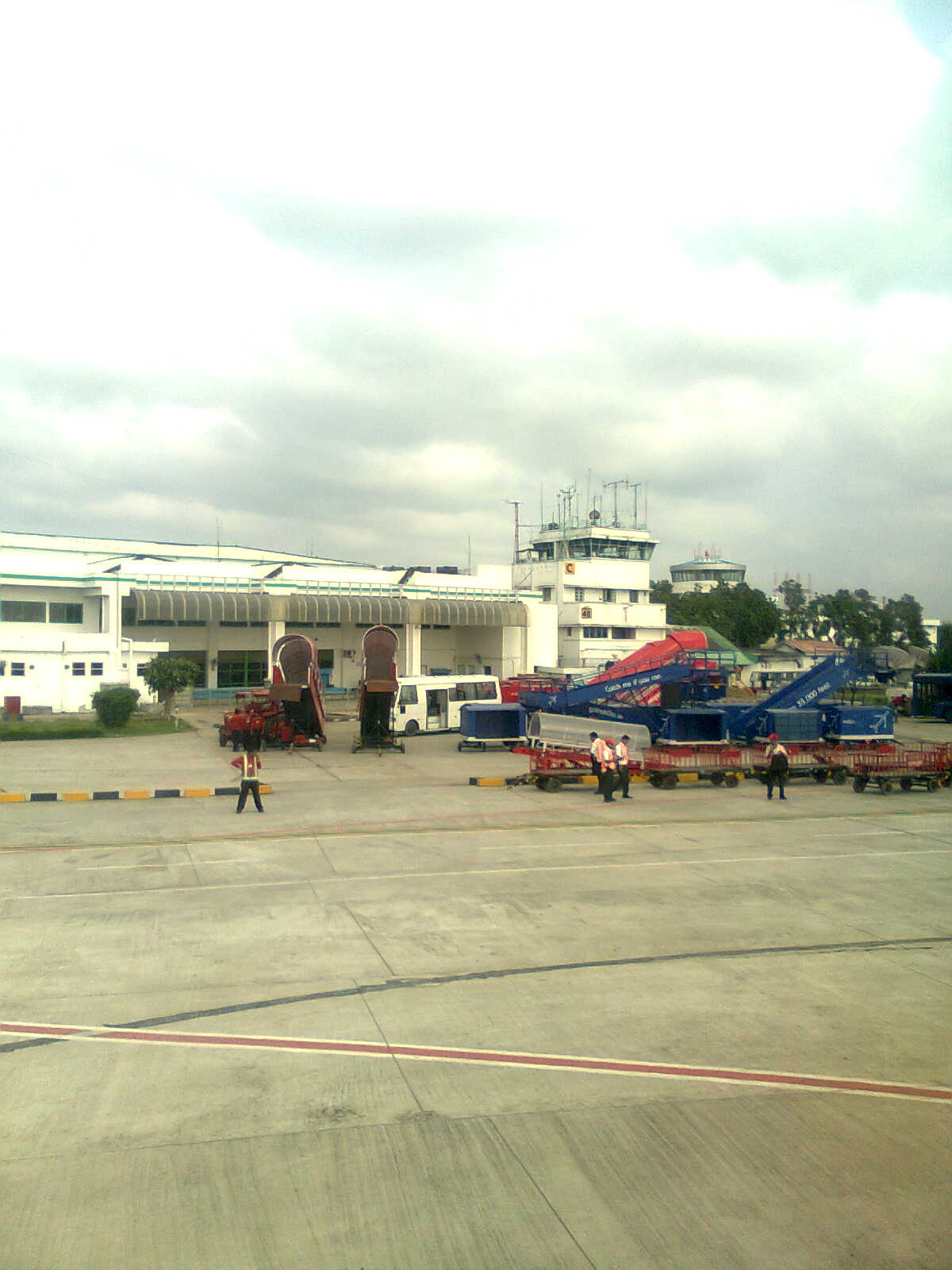 present terminal building of Agartala airport